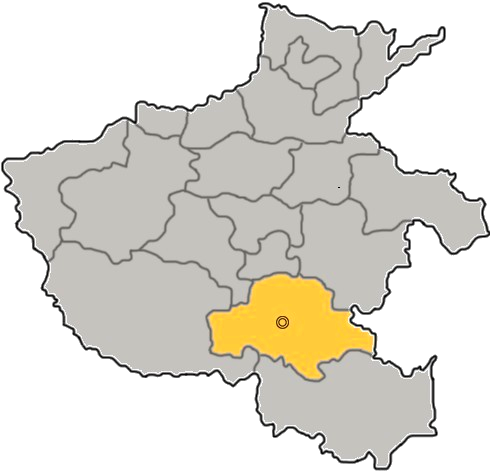 The prefecture-level city of Zhumadian is highlighted on this map of Henan province, People's Republic of China.